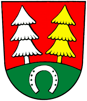 Coat of arms of Svojetice Česky: Znak obce Svojetice